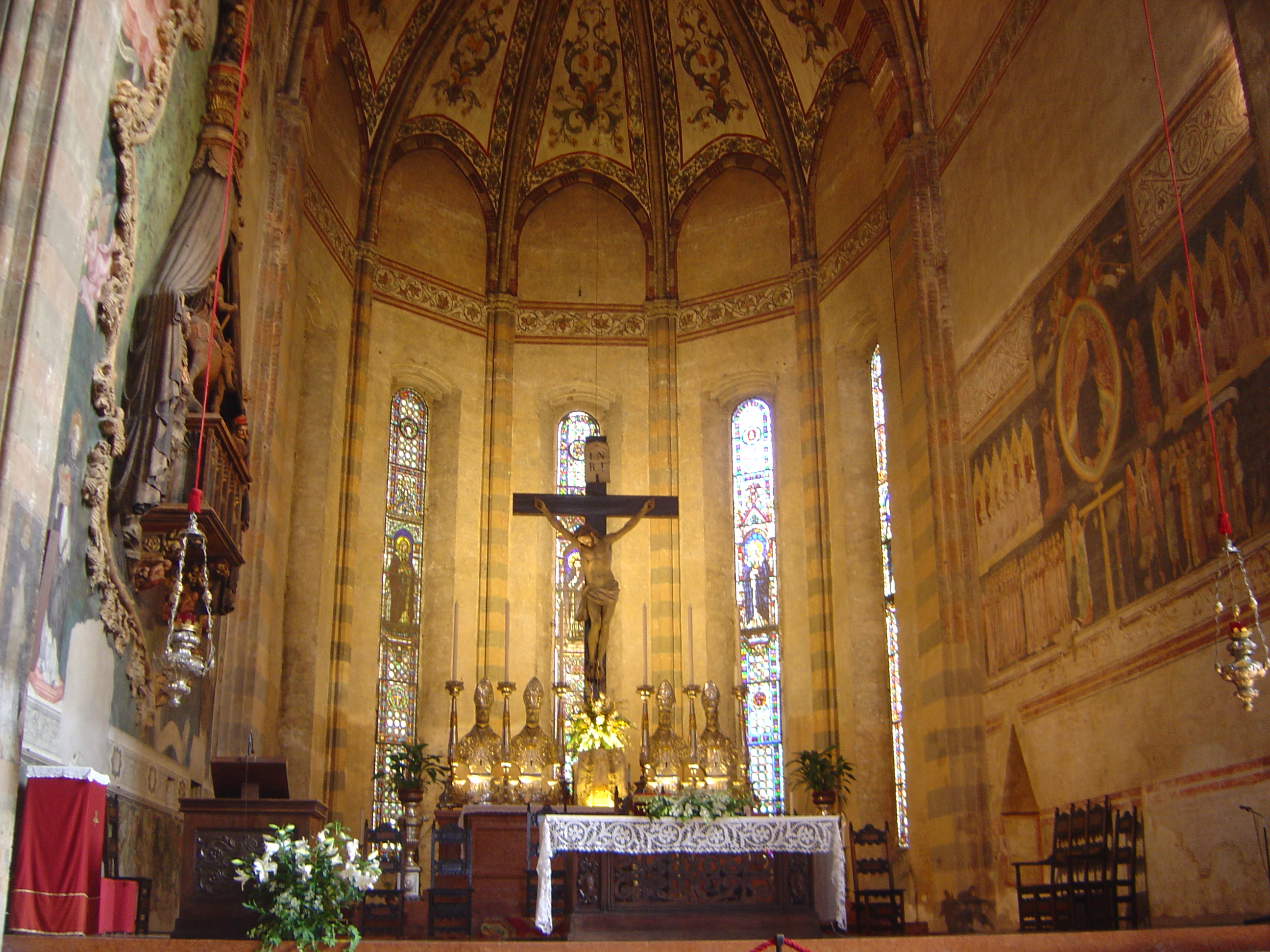 San Anastasia cathedral, Verona, Italy